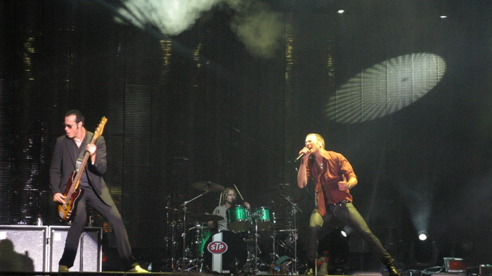 Stone Temple Pilots playing live at Bumbershoot.